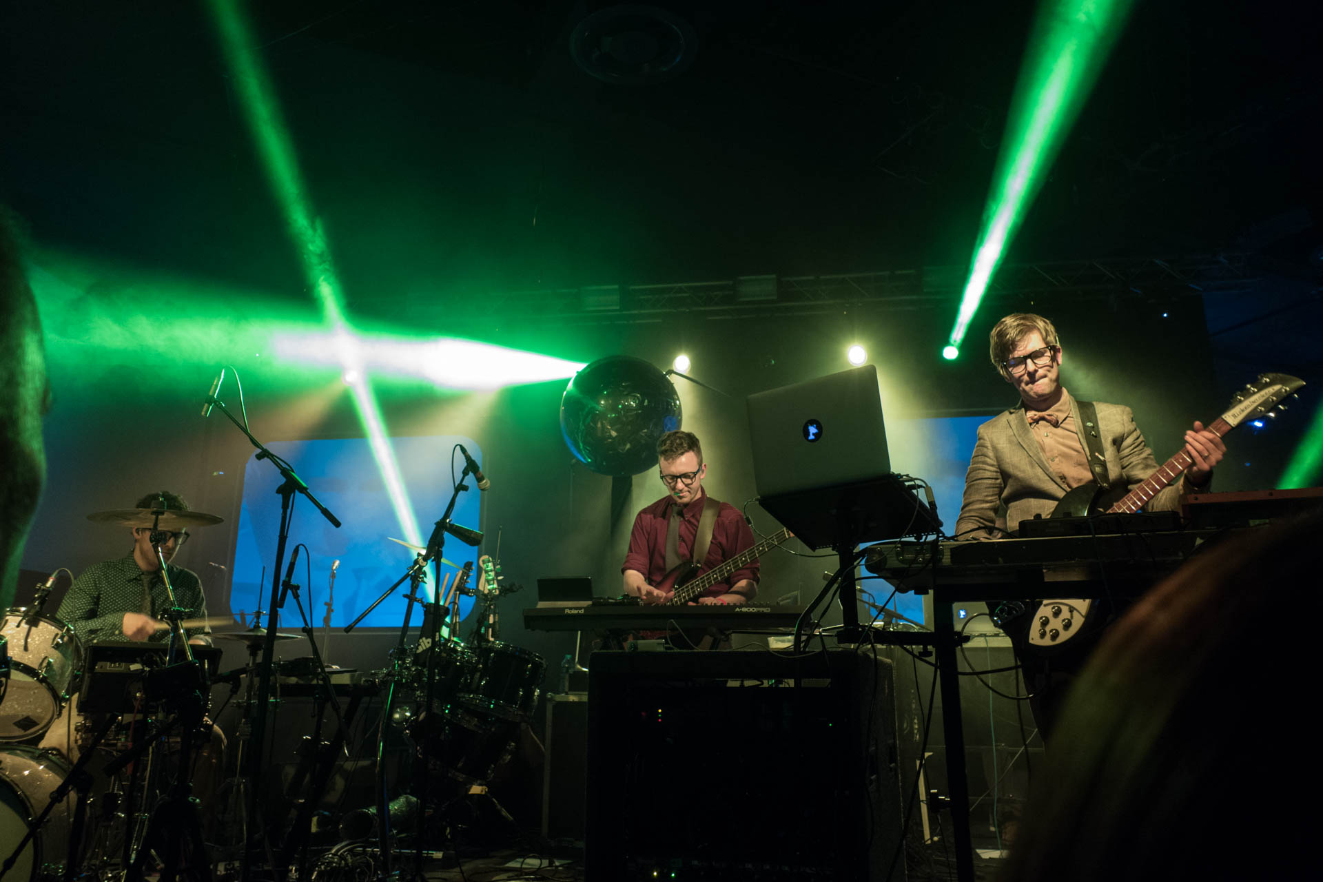 Public Service Broadcasting performs at the National Space Center during their The Race For Space Tour.